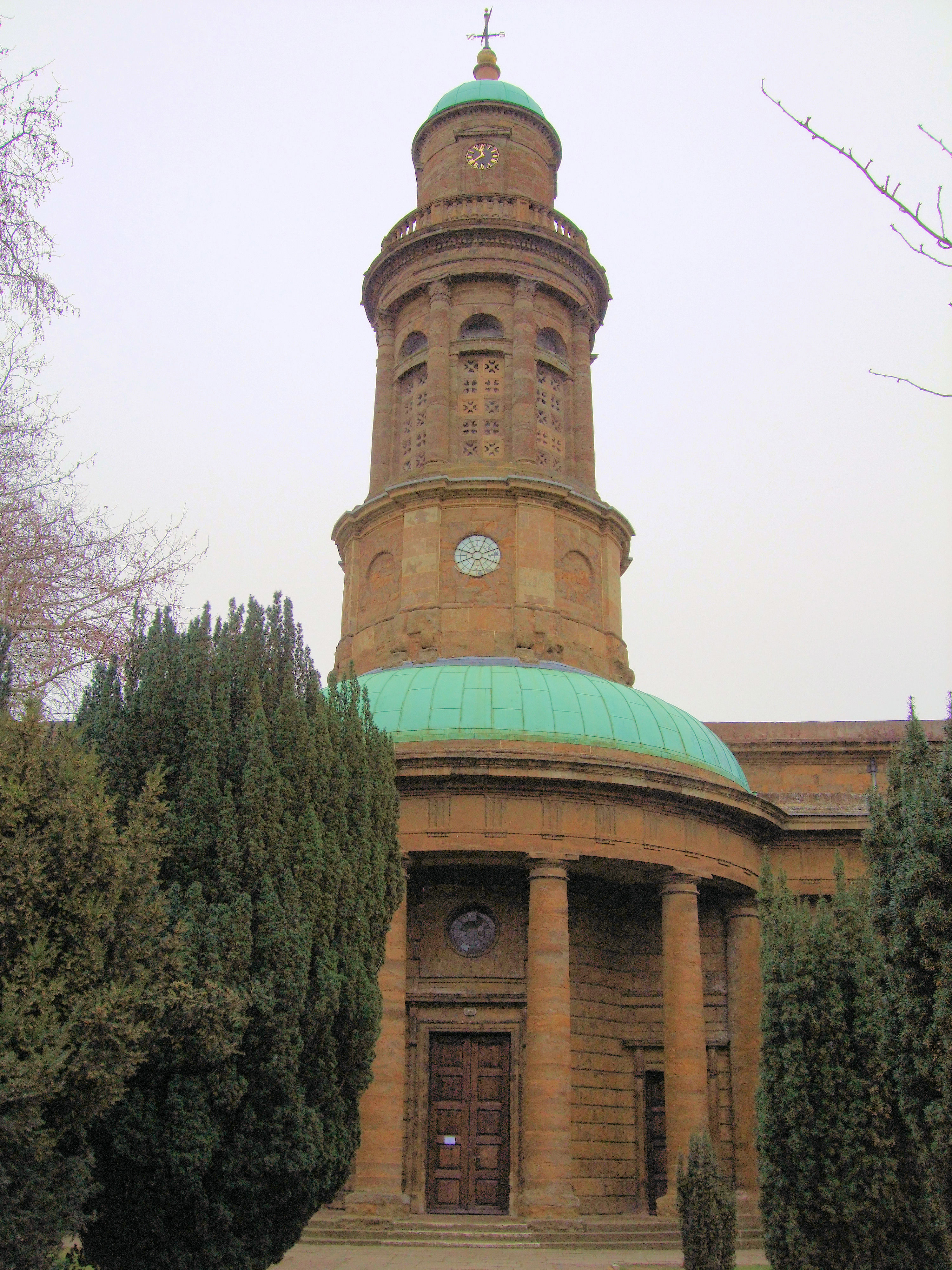 St Mary the Virgin parish church, Banbury, Oxfordshire, seen from the west